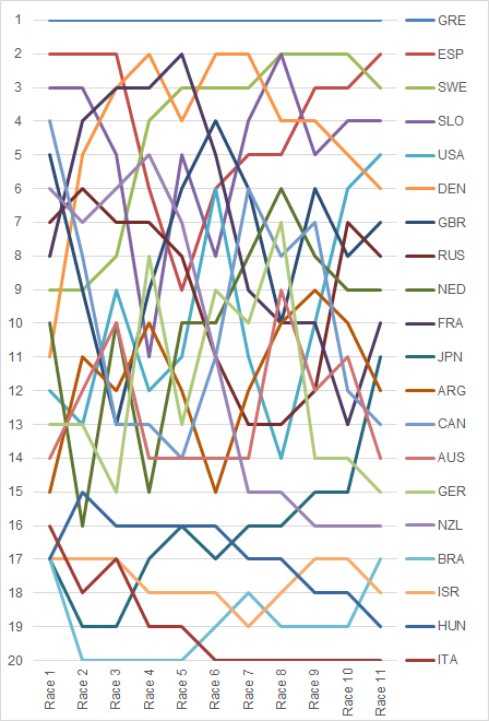 2004 Women's 470 Positions during the serie